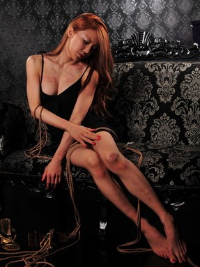 KINBKU Model Seira Mikami profile 02